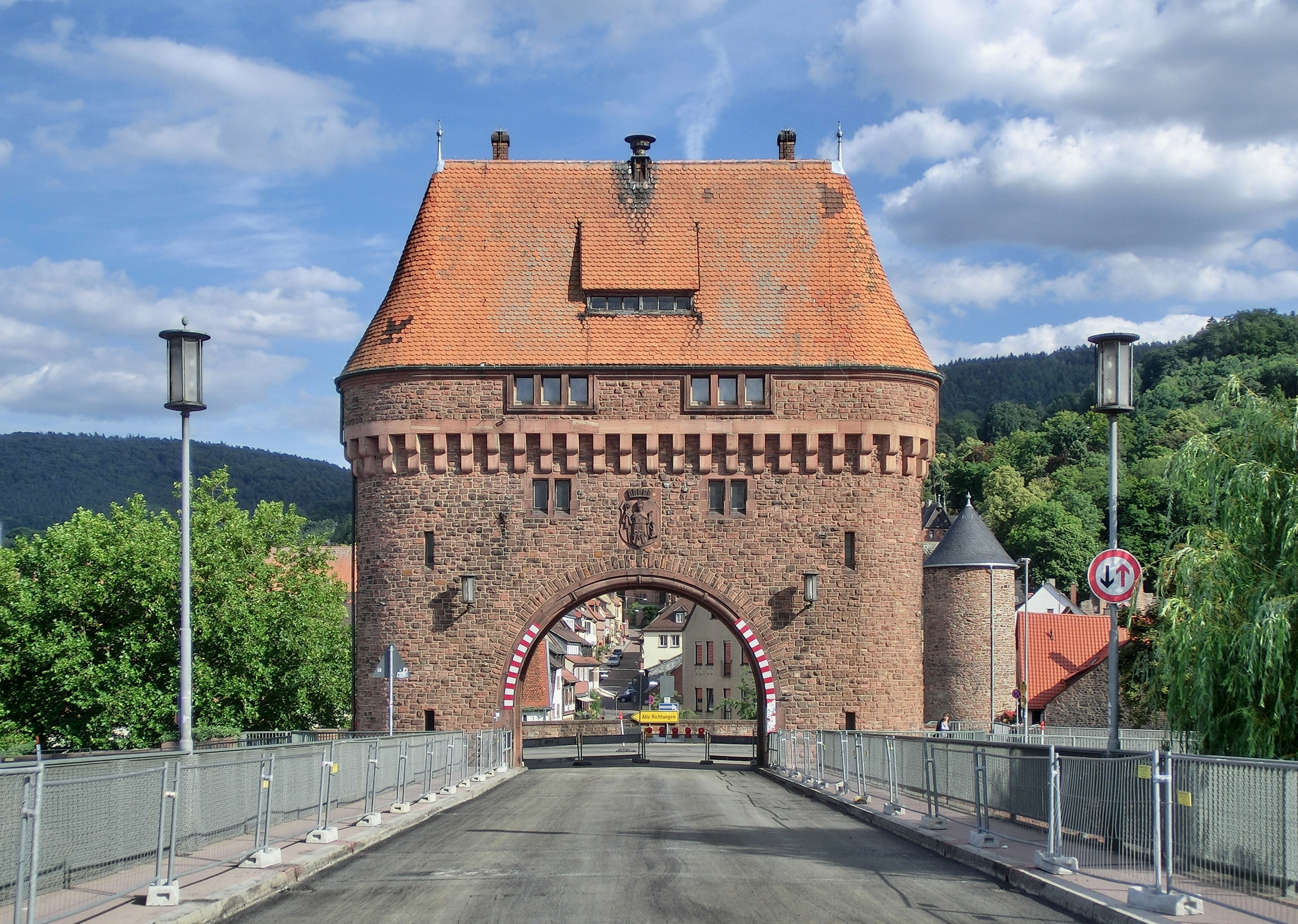 The gatehouse of Miltenberg bridge, Lower Franconia.